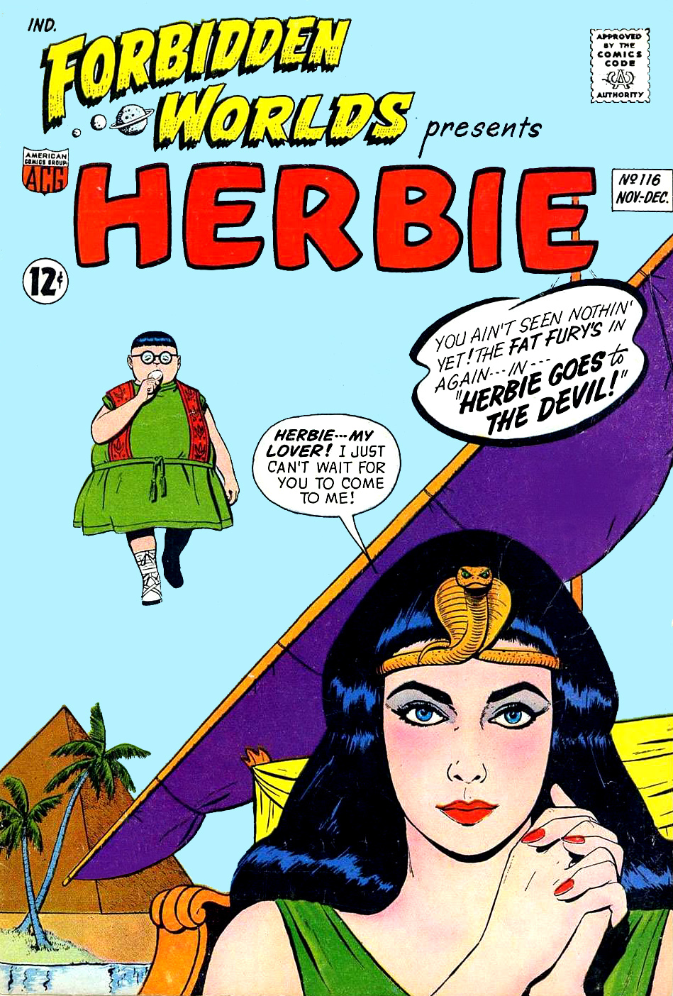 "Herbie Goes to The Devil!": Herbie Popnecker on the cover of Forbidden Worlds number 116 (Nov-Dec 1963), featuring a caricature of Elizabeth Taylor. As one of the title's few recurring characters, Herbie was something of a breakout hit for the American Comics Group.